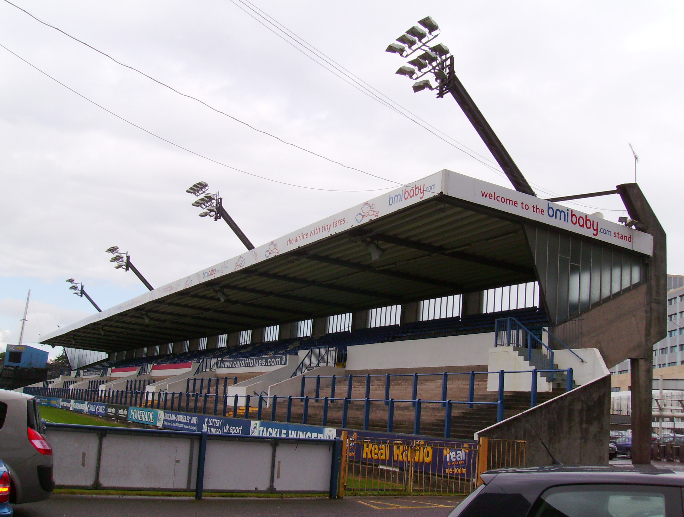 The bmibaby (north) Stand at Cardiff Arms Park, Cardiff